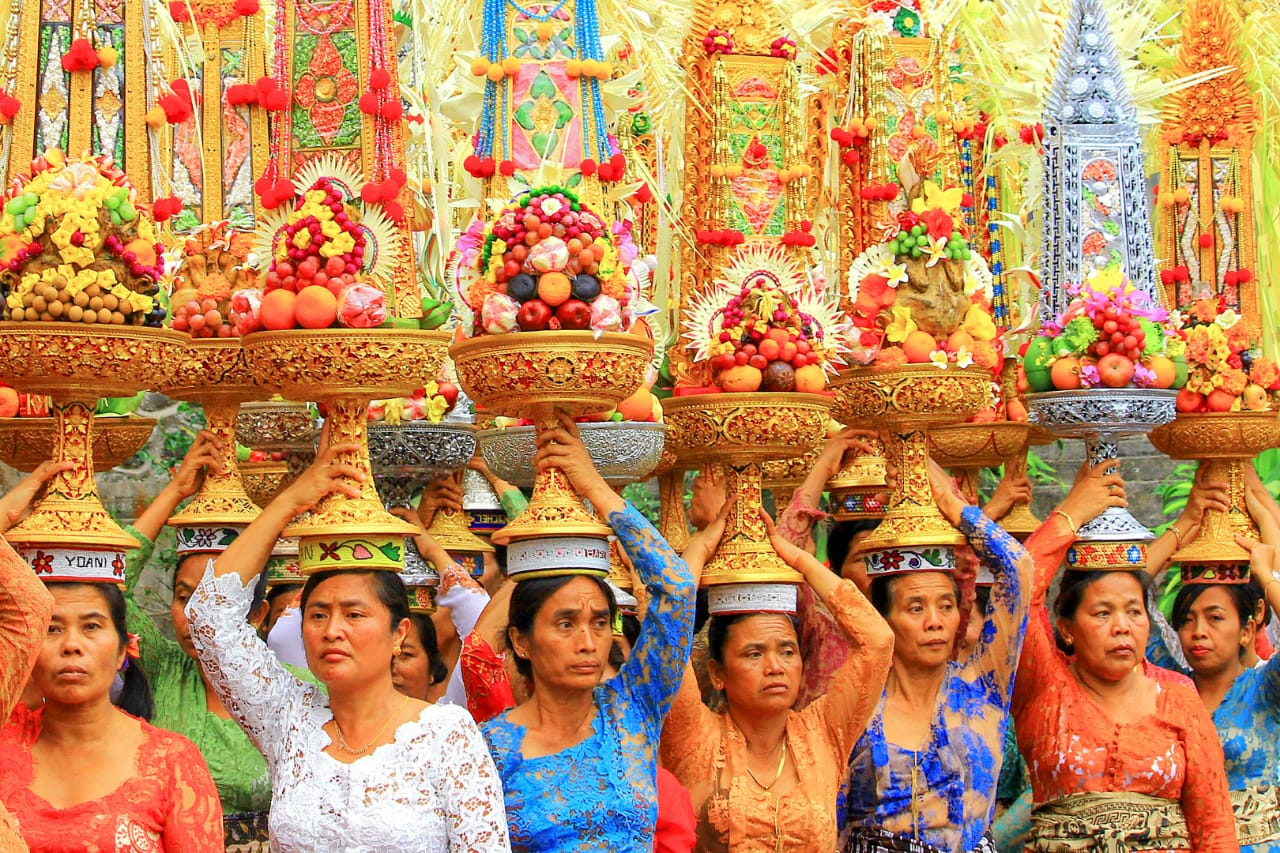 Banten or offerings made by the people of Bali are very unique and colorful, so if on the network looks beautiful.